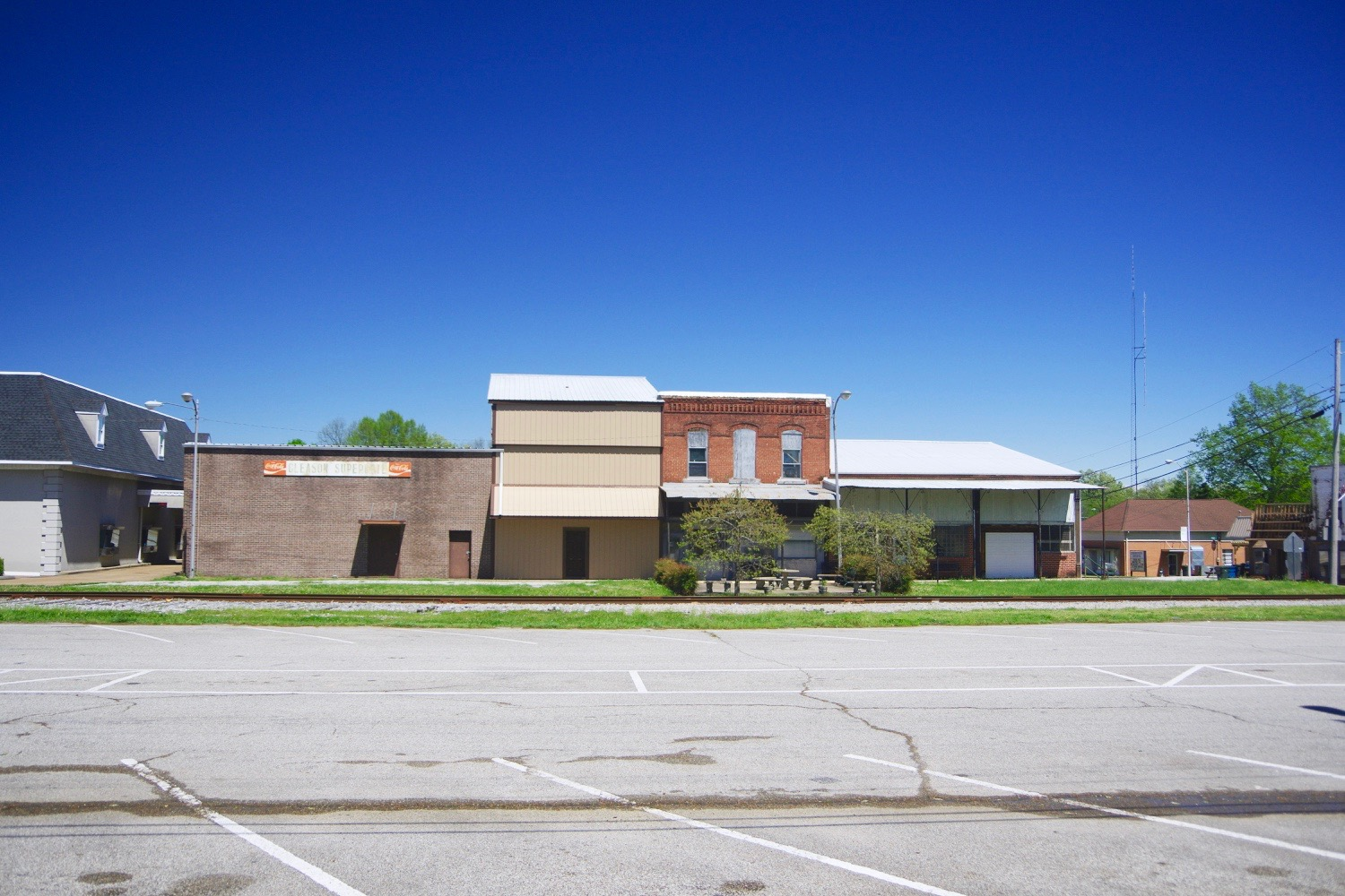 Buildings facing State Championship Road in Gleason, Tennessee, United States.